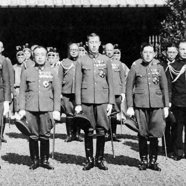 Prince Yi Un, Yi Geon, Yi Wu, Tokyo, 1938